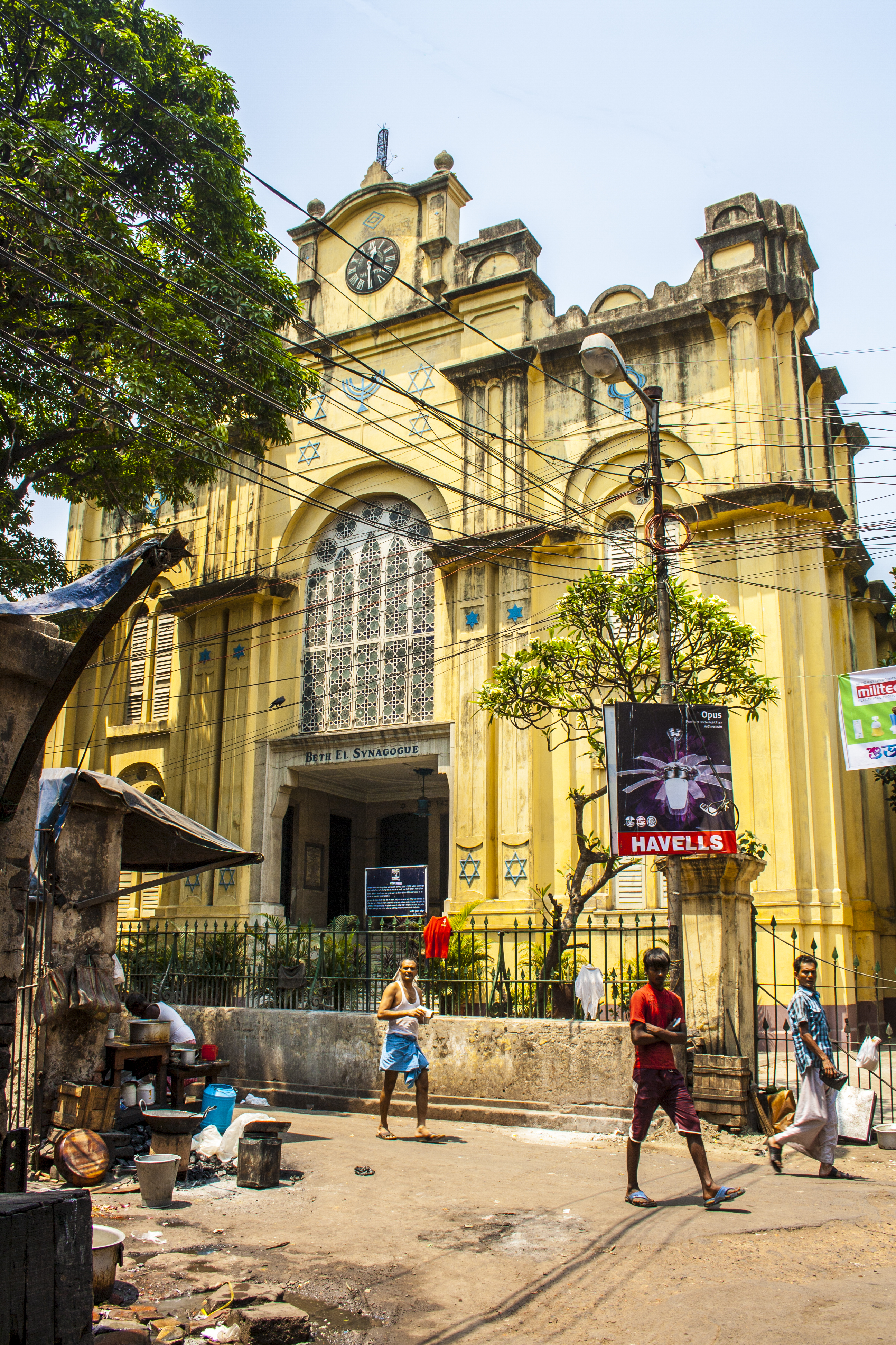 Beth El Synagogue is located at Pollock Street Kolkata and was built in 1856.